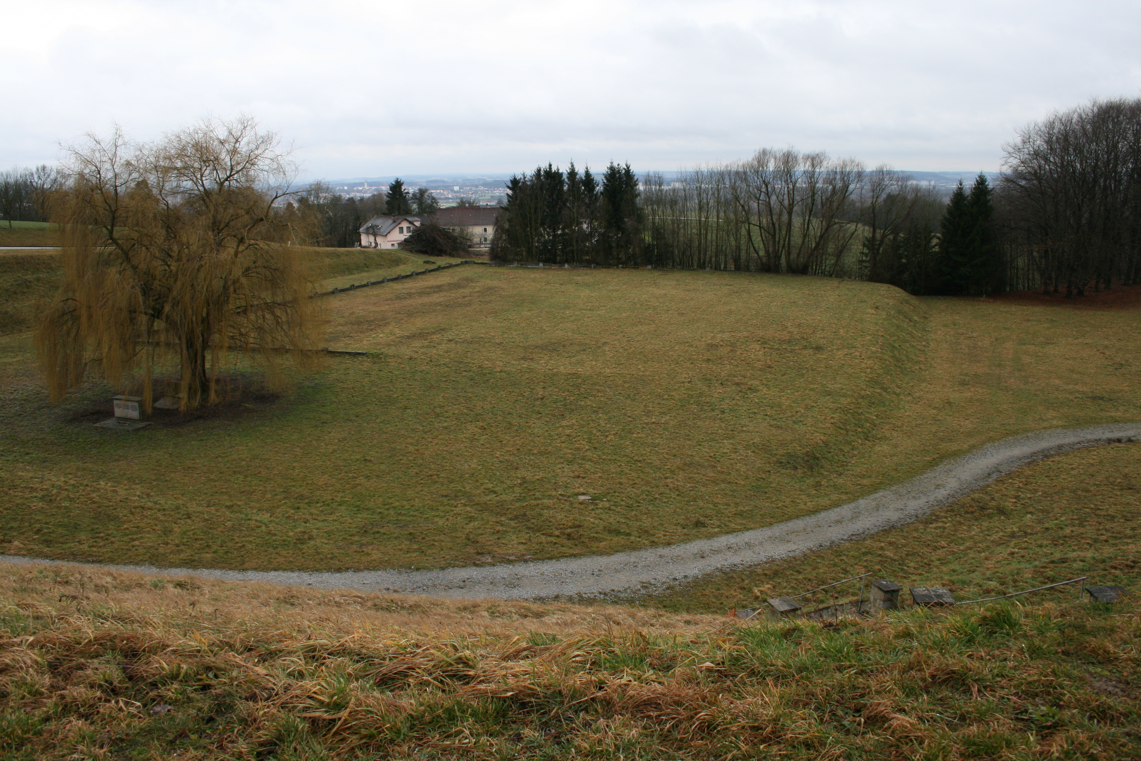 Soccer field of the SS at KZ Mauthausen